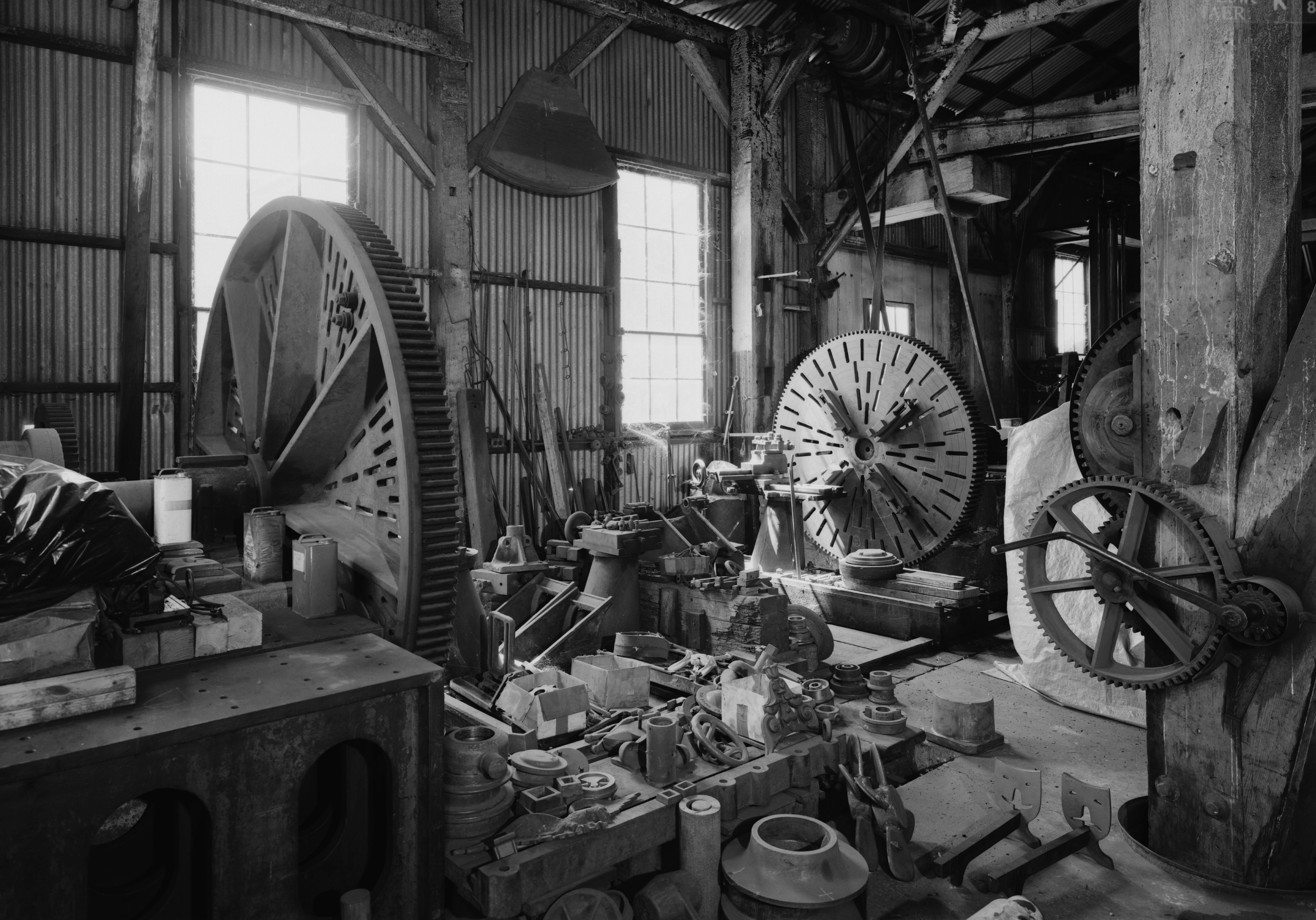 Two Knight Wheels (lathes) at the Knight Foundry, Sutters Creek, California, USA These are faceplates with gear teeth around the edge, and are "T" lathes, not Knight wheels. This picture appears to be of two "T" lathes, a variation of an engine lathe used primarily for facing large diameter parts. Knight Wheels have cups around their circumference to catch the water sprayed from the corresponding nozzle, and are usually covered to control the water spray. These "wheels are faceplates used on lathes and have gear teeth around their edges, not small buckets to catch water. The gear teeth are what drive the faceplate, and attached work piece, around their axis and against a cutting tool. Water and Knight wheels powered these two machines. .